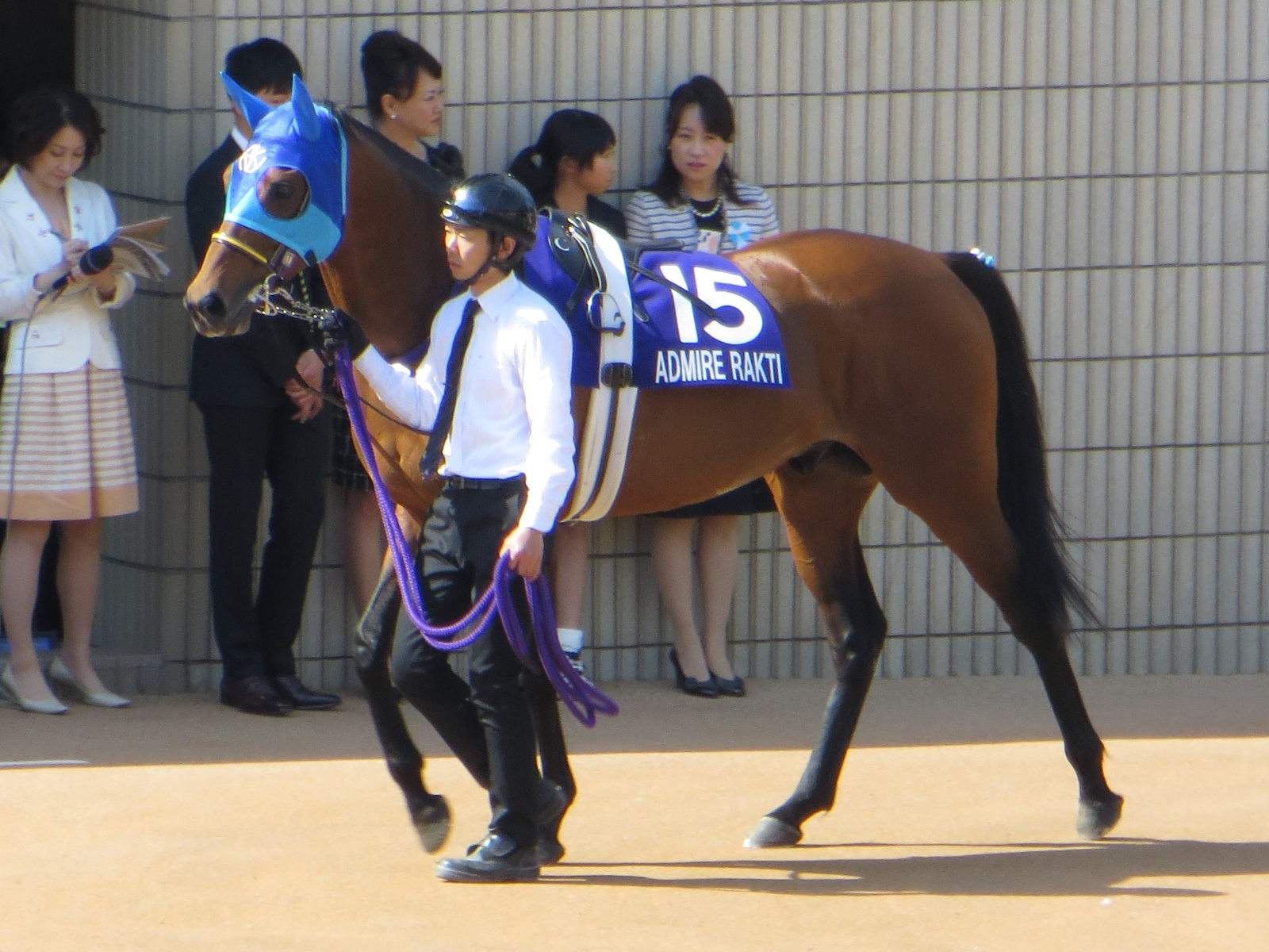 Adimire Rakti (Racehorse of Japan).